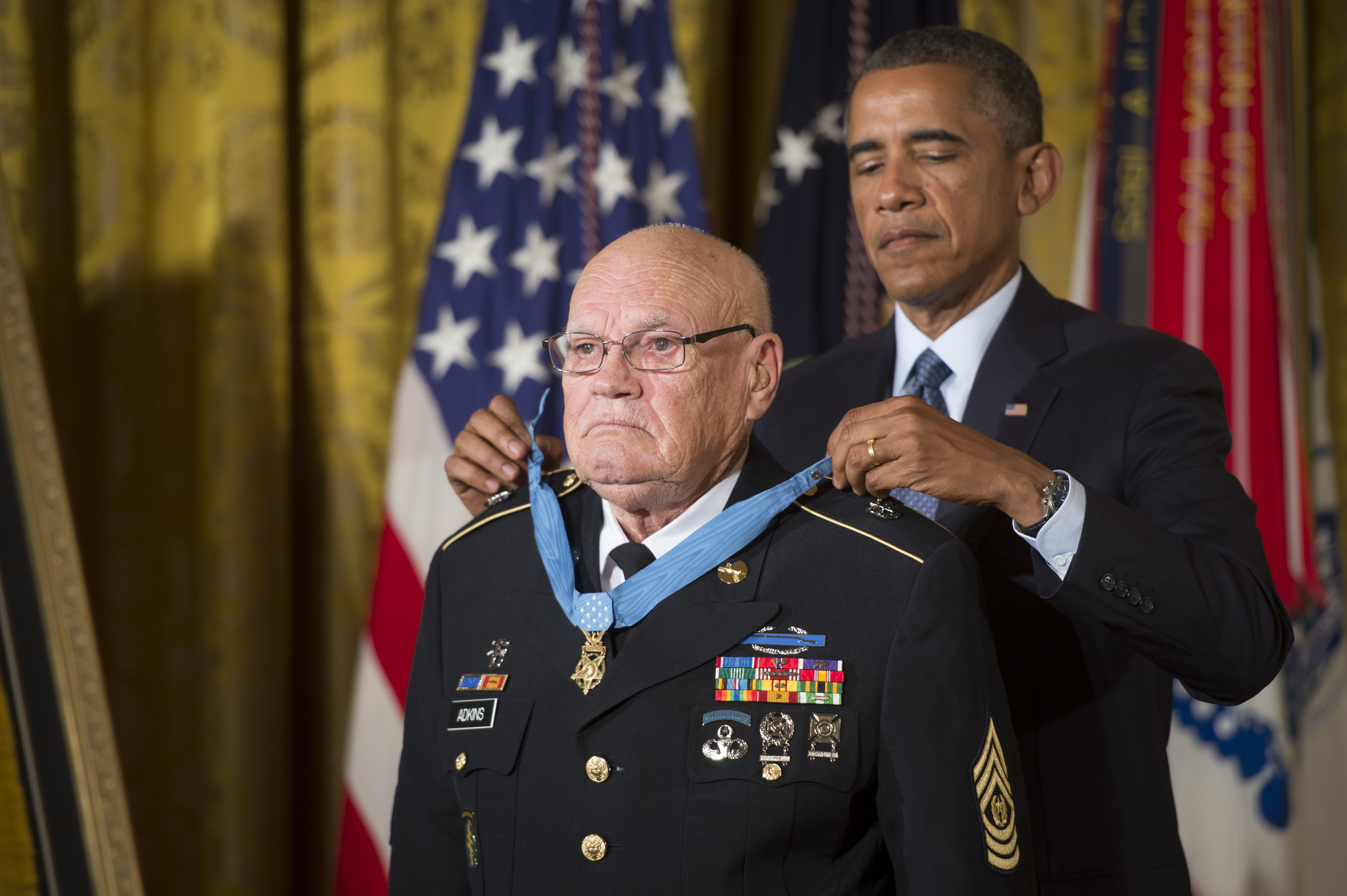 President Barack Obama bestows the Medal of Honor to retired Command Sgt. Maj. Bennie G. Adkins in the East Room of the White House, Sept. 15, 2014. Adkins distinguished himself during 38 hours of close-combat fighting against enemy forces on March 9 to 12, 1966. At that time, then-Sgt. 1st Class Adkins was serving as an Intelligence Sergeant with 5th Special Forces Group, 1st Special Forces at Camp "A Shau", in the Republic of Vietnam. During the 38-hour battle and 48-hours of escape and evasion, Adkins fought with mortars, machine guns, recoilless rifles, small arms, and hand grenades, killing an estimated 135 - 175 of the enemy and sustaining 18 different wounds. (U.S. Army photo by Staff Sgt. Bernardo Fuller/Released)